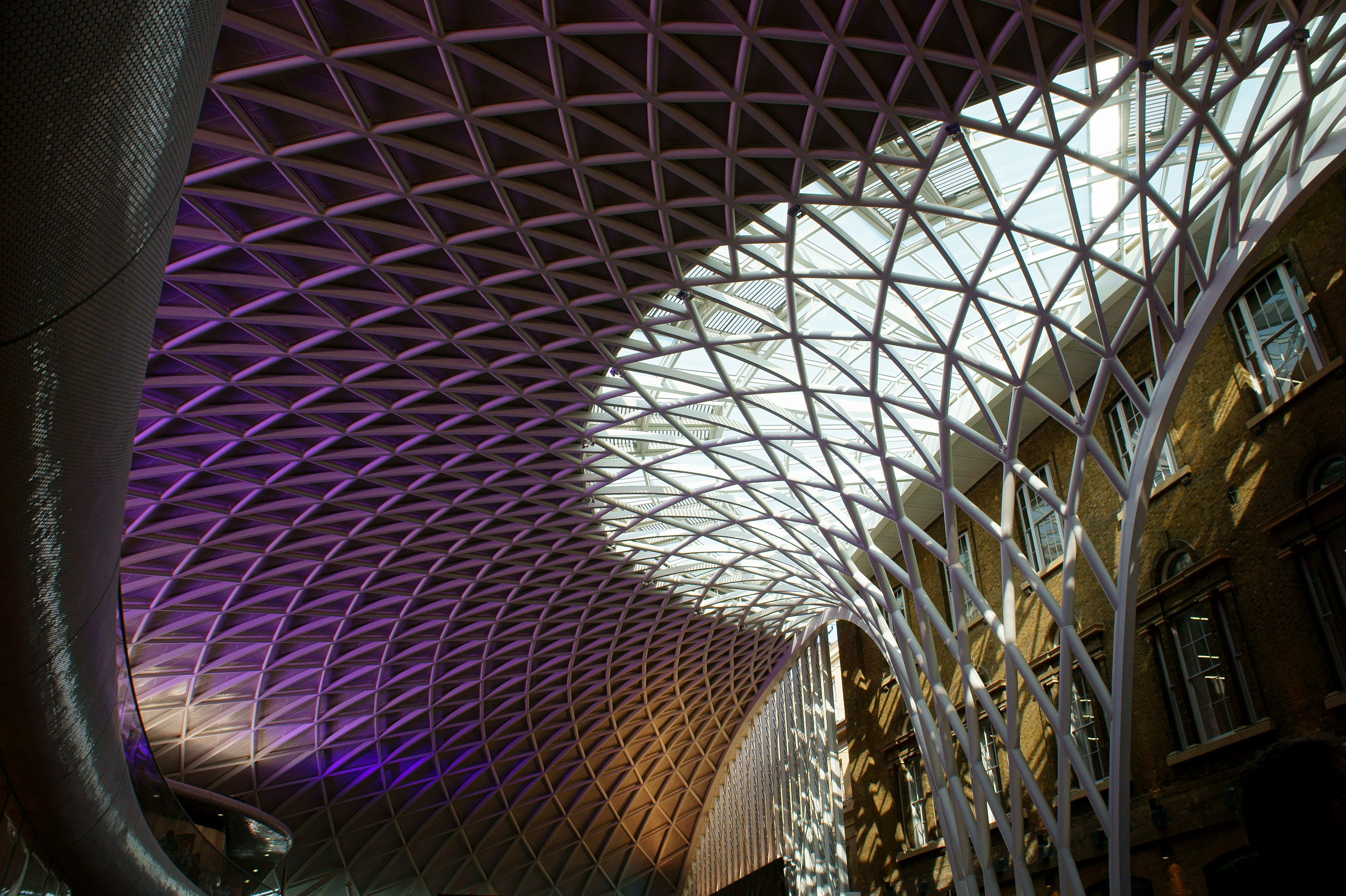 King's Cross Western Concourse